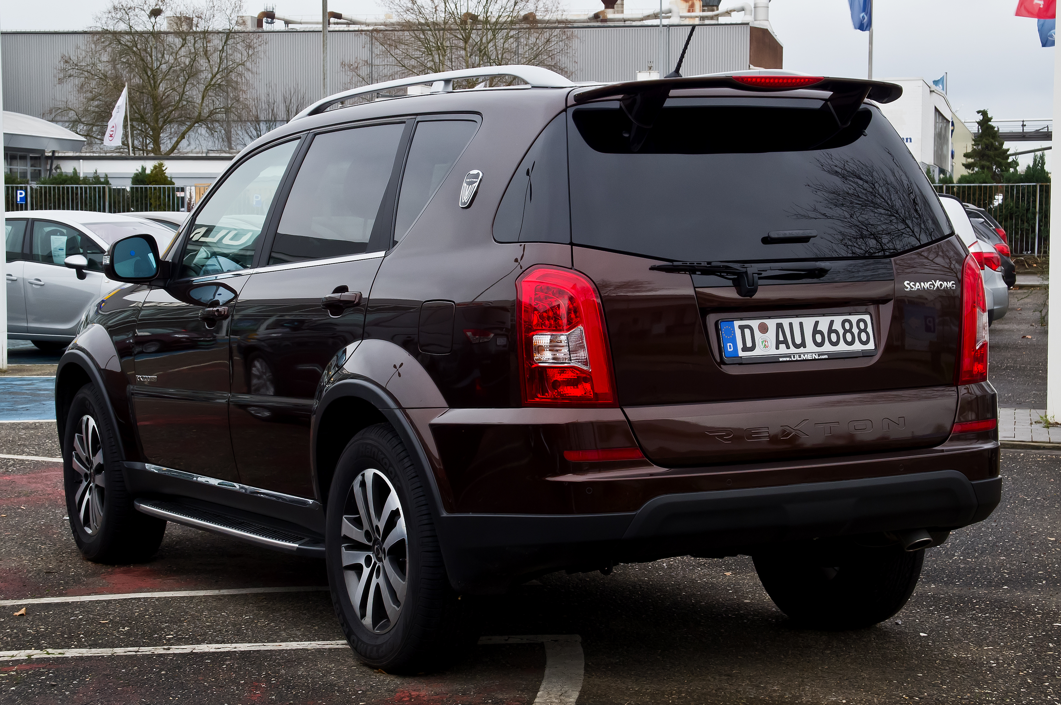 SsangYong Rexton W RX200e-XDi Sapphire (2. Facelift)